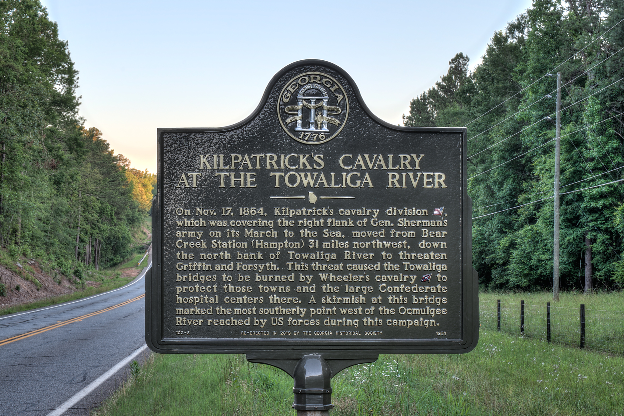 Historic marker